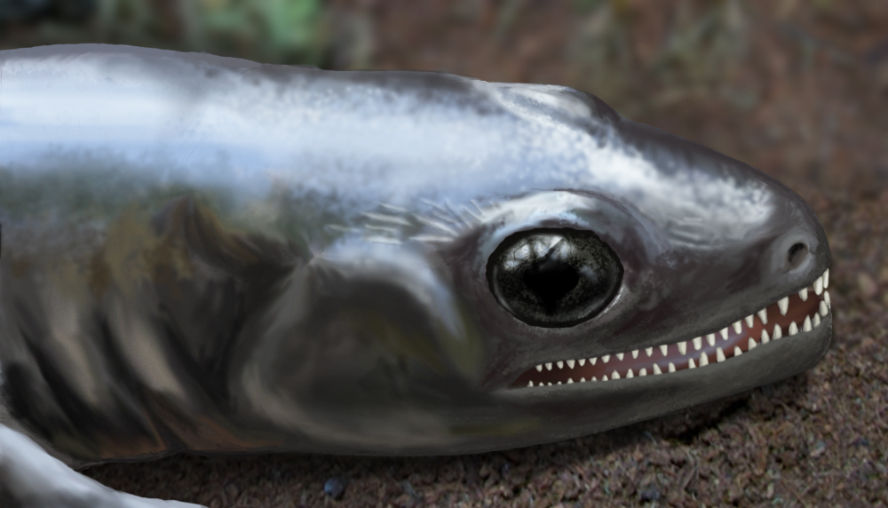 Life restoration of Llistrofus pricei. Based on after figures 4 and 5 of "The holotype skull of Llistrofus pricei Carroll and Gaskill, 1978 (Microsauria: Hapsidopareiontidae)" by John R. Bolt and Olivier Rieppel (Journal of Paleontology 83(3):471-483).